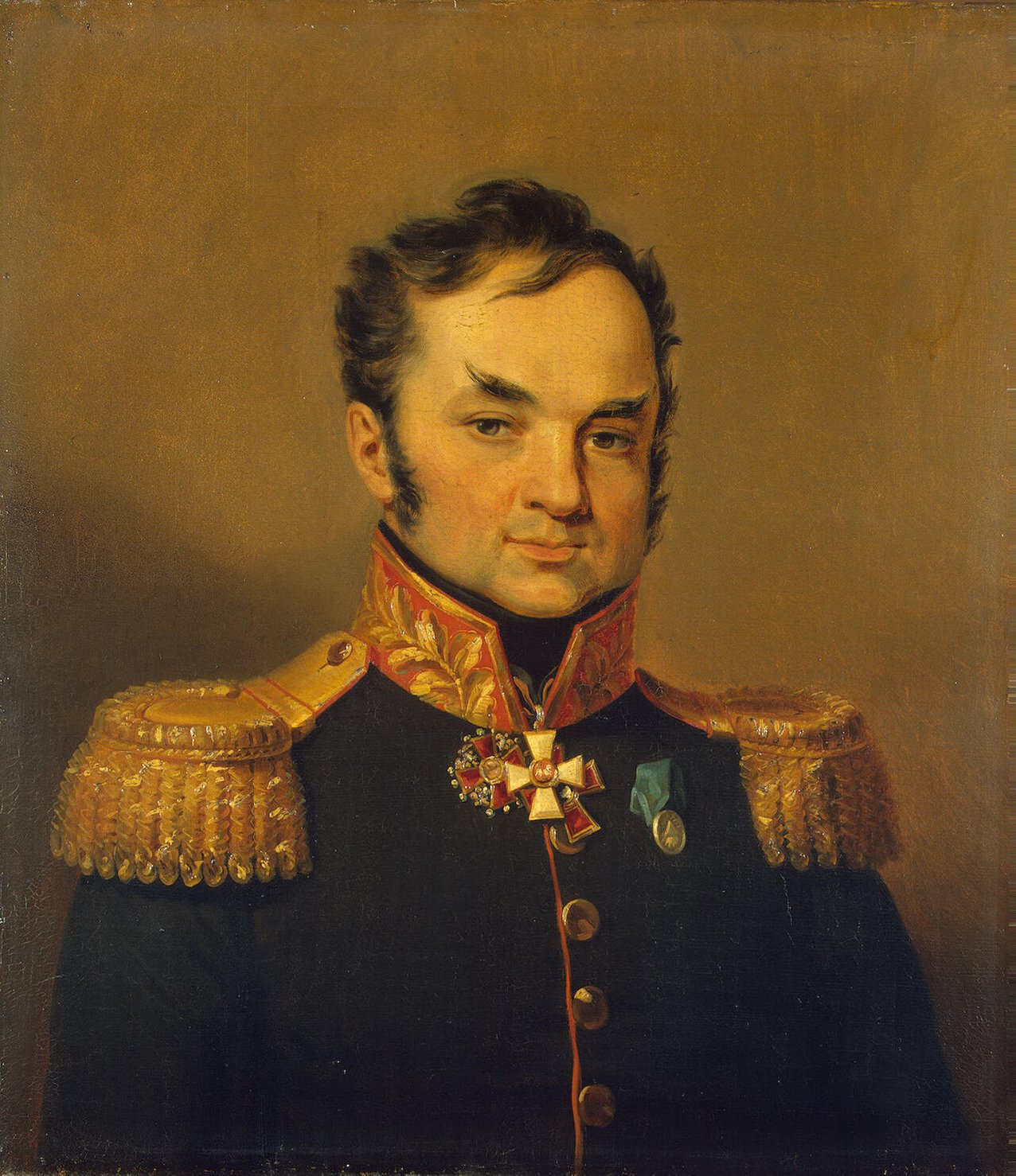 Glebov, Andrey Savvich (1770 – 12.09.1854) russian major general.